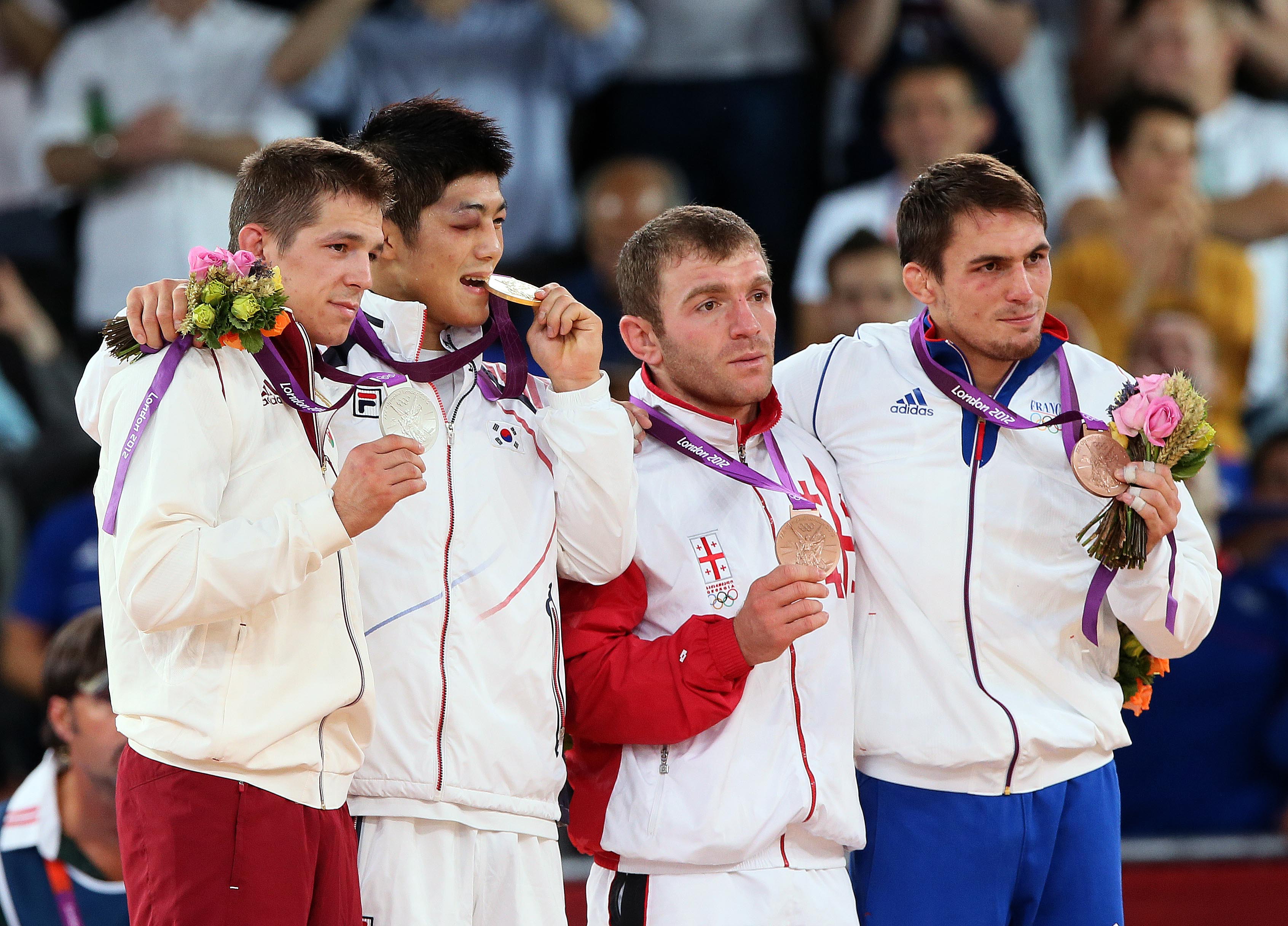 2012 London Olympic Games Korean Wresting Kim Hywonwoo won gold medal in the men's 66kg Greco-Roman. 2012.08.08. Photo by Korean Olympic Committee Ministry of Culture, Sports and Tourism Korean Culture and Information Service 2012 런던 올림픽 남자 레슬링 그레코로만형 66kg 김현우 금메달 획득 사진제공 - 대한체육회 문화체육관광부 해외문화홍보원